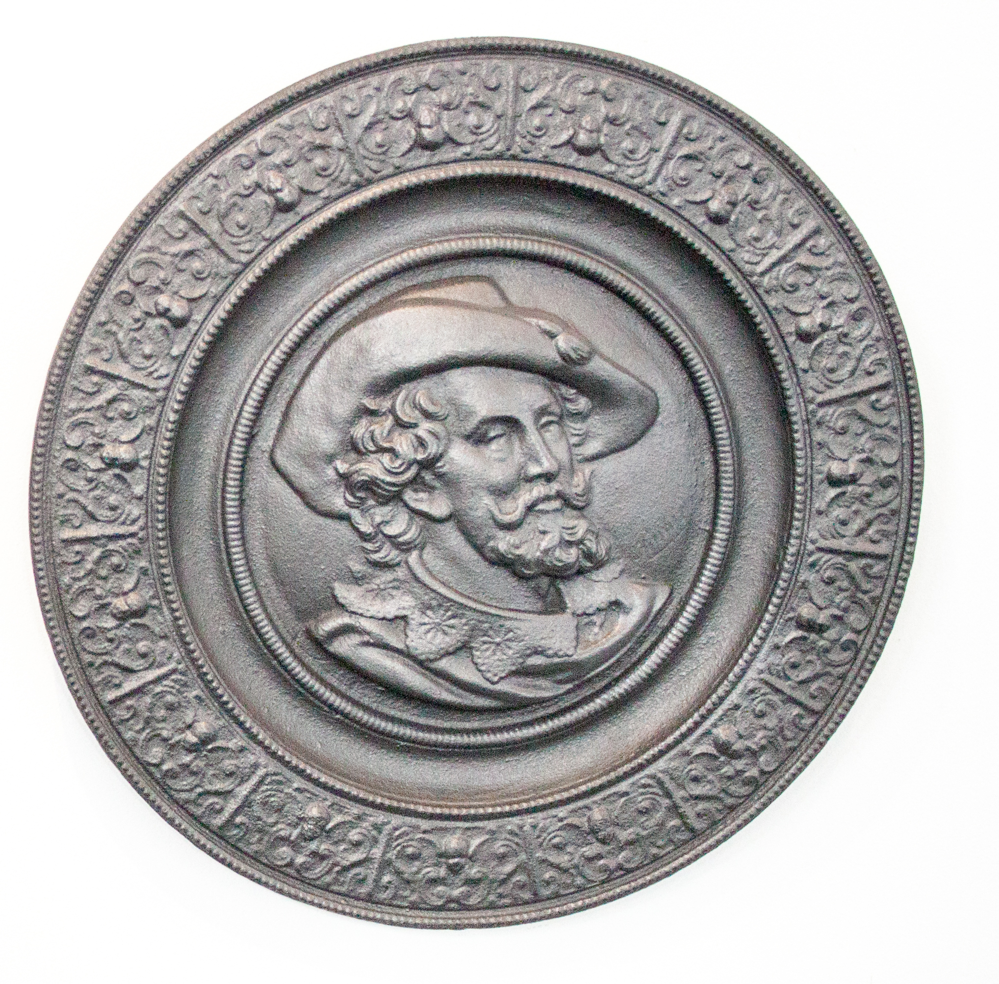 Iron plateau, portrait of Rubens, made in Dernő (Drnava) factorylabel QS:Len,"Iron plateau, portrait of Rubens, made in Dernő (Drnava) factory" label QS:Lhu,"Öntöttvas tál Rubens képmásával, a dernői gyár terméke"